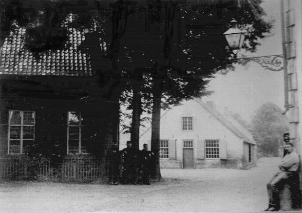 View at the market square of Deurne, The Netherlands, 1890.